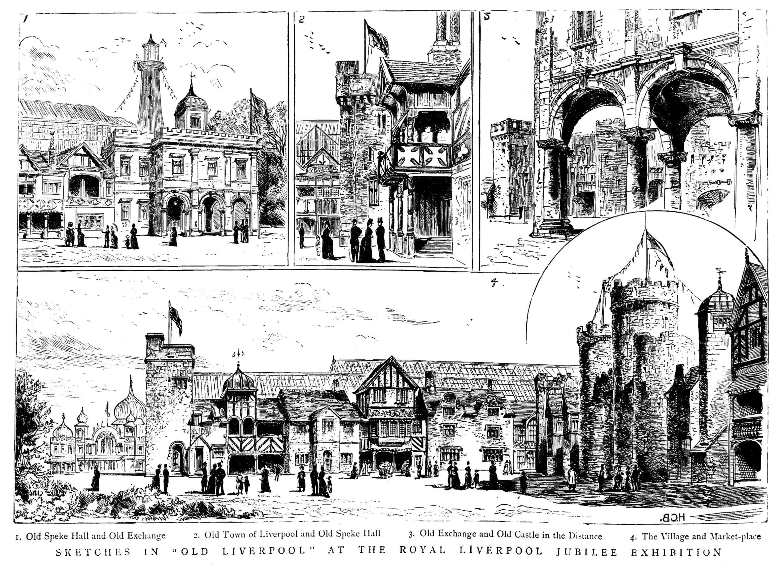 Sketches in "Old Liverpool" at the Royal Liverpool Jubilee Exhibition, The Graphic 28 May 1887, p. 560.